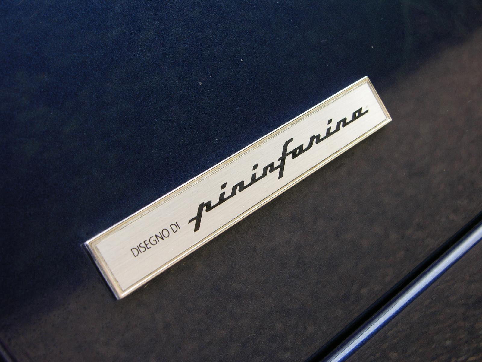 This car is for sale. Please contact us at or visit for more information.